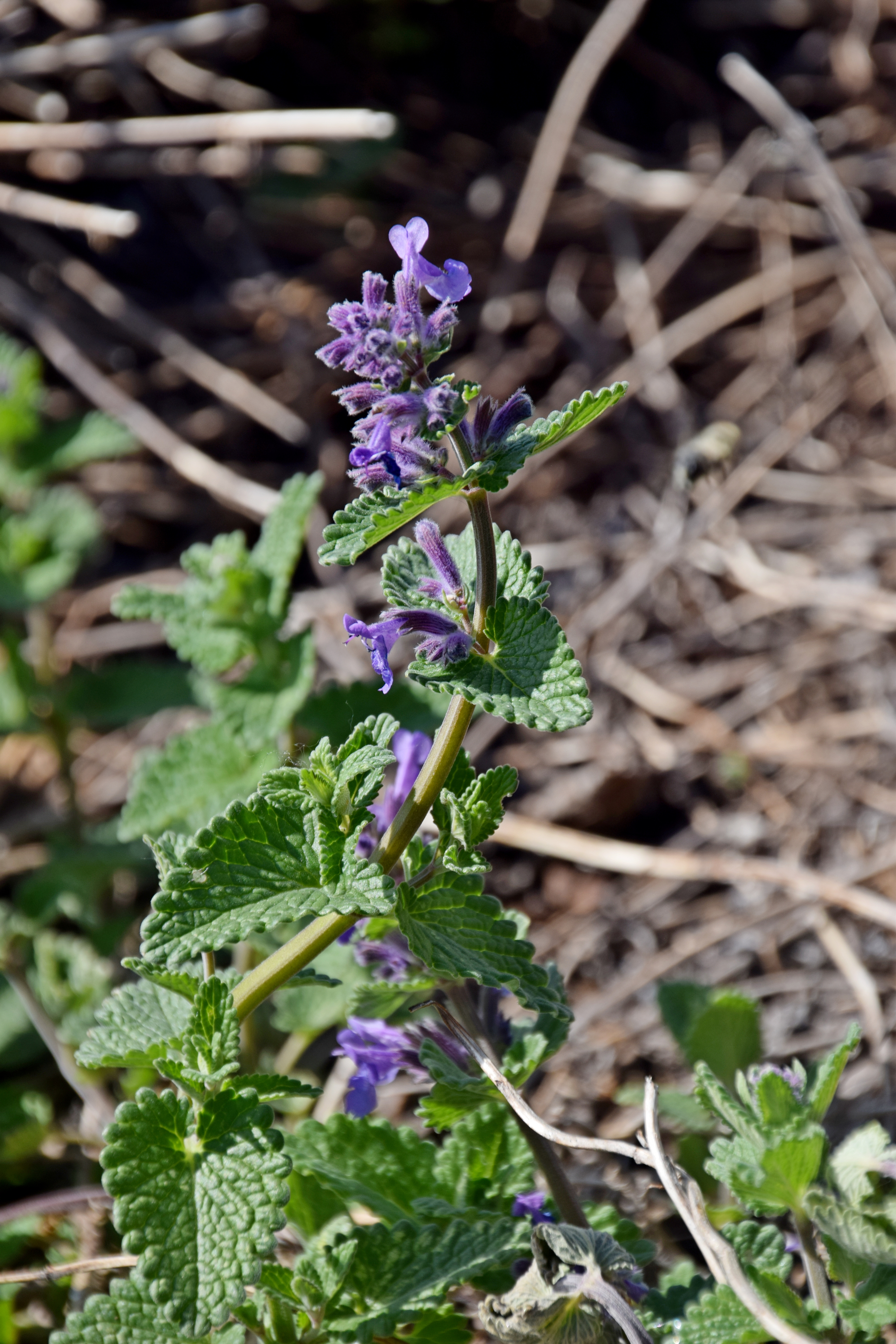 Nepeta latifolia in Jardin Botanique de l'Aubrac, Saint-Chély-d'Aubrac, Aveyron, France